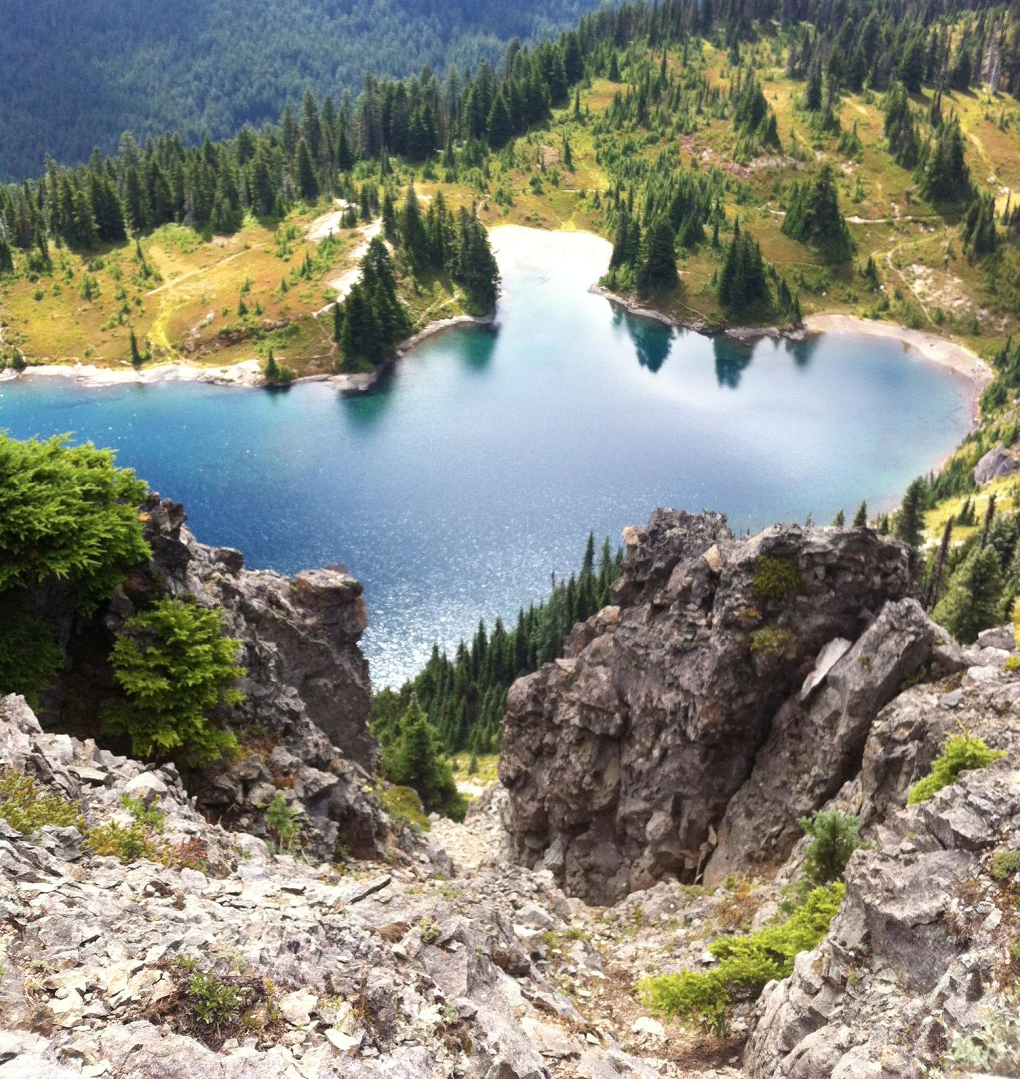 Eunice Lake viewed Tolmie Peak.